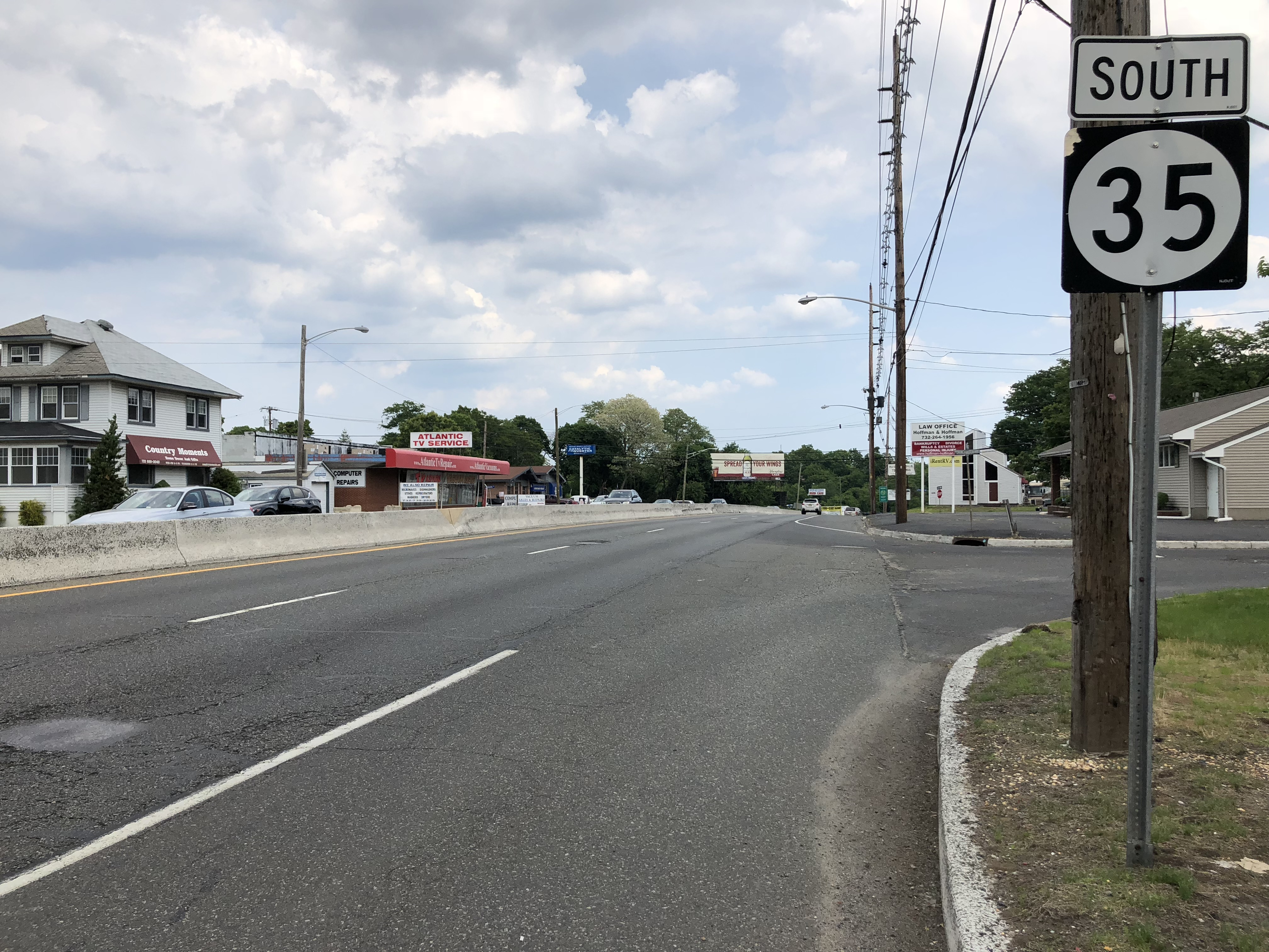 View south along New Jersey State Route 35 at Chingarora Avenue in Keyport, Monmouth County, New Jersey